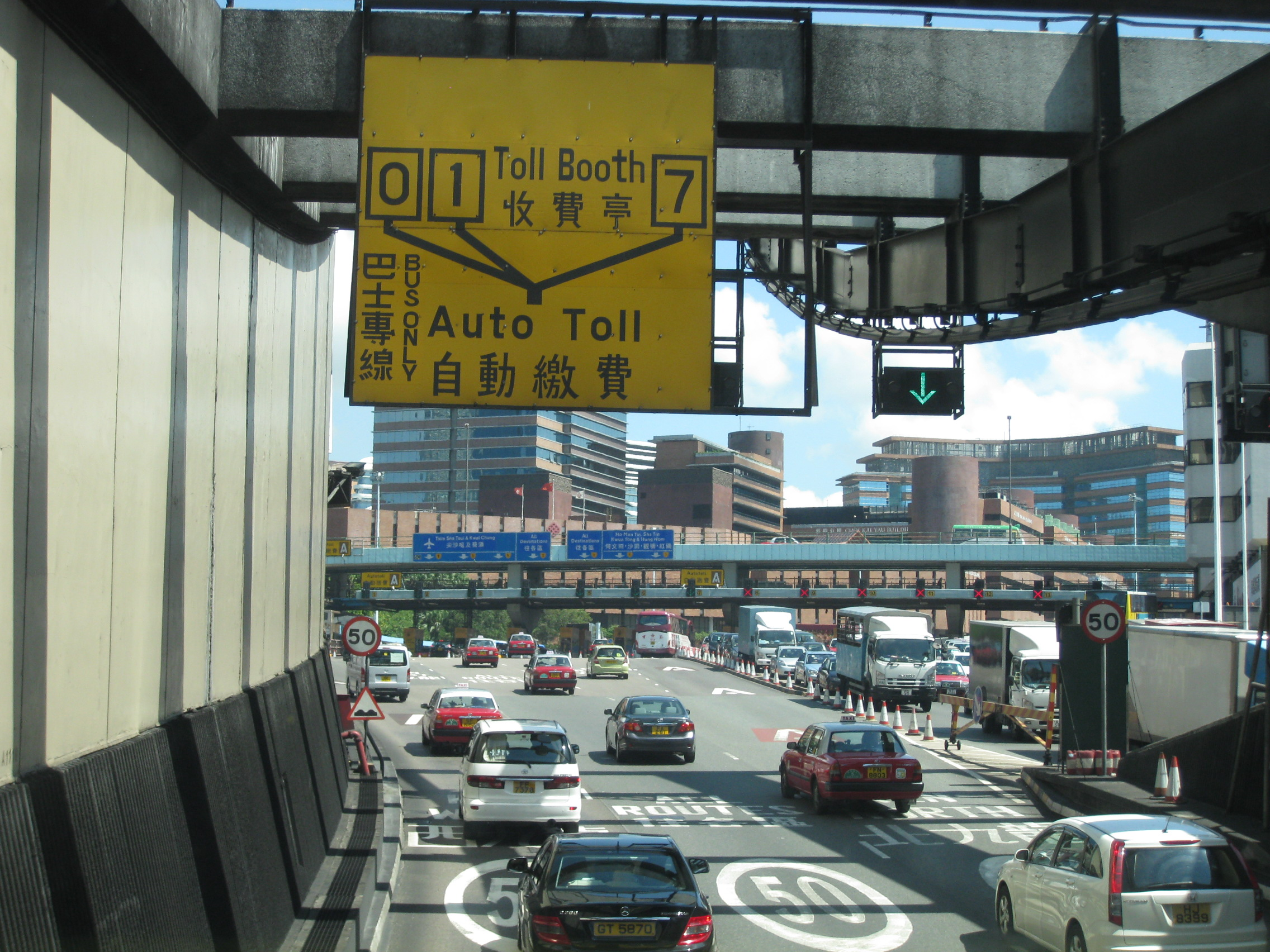 Cross-Harbour Tunnel (Hung Hom) in Hong Kong